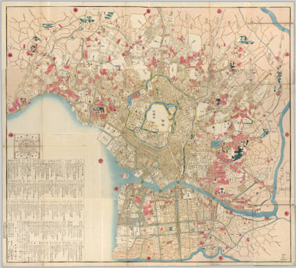 Large plan of Edo revised in the Bunkyū era